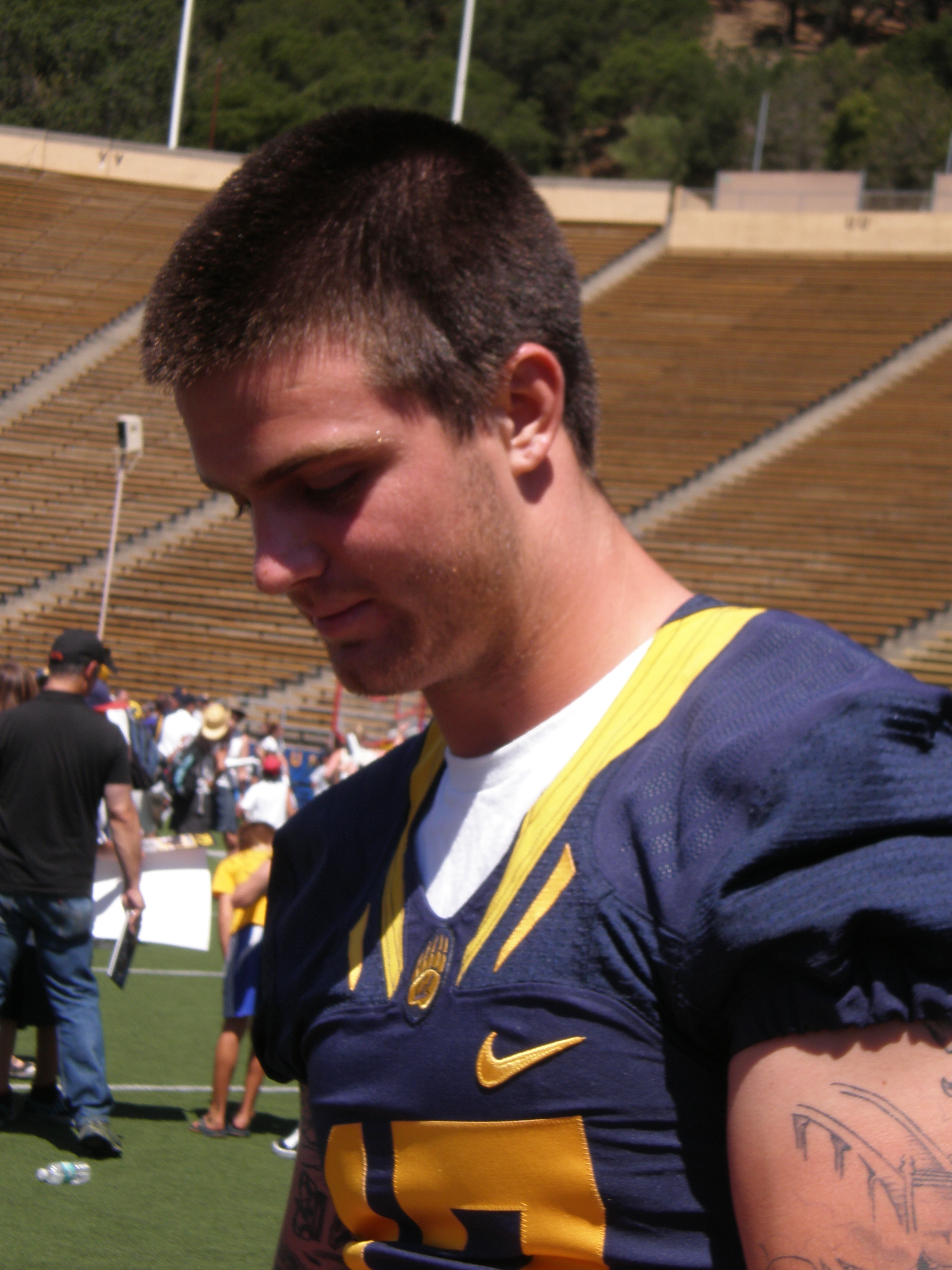 Cal defensive back Chris Conte at the 2009 Cal Fan Appreciation Day at Memorial Stadium in Berkeley, California.